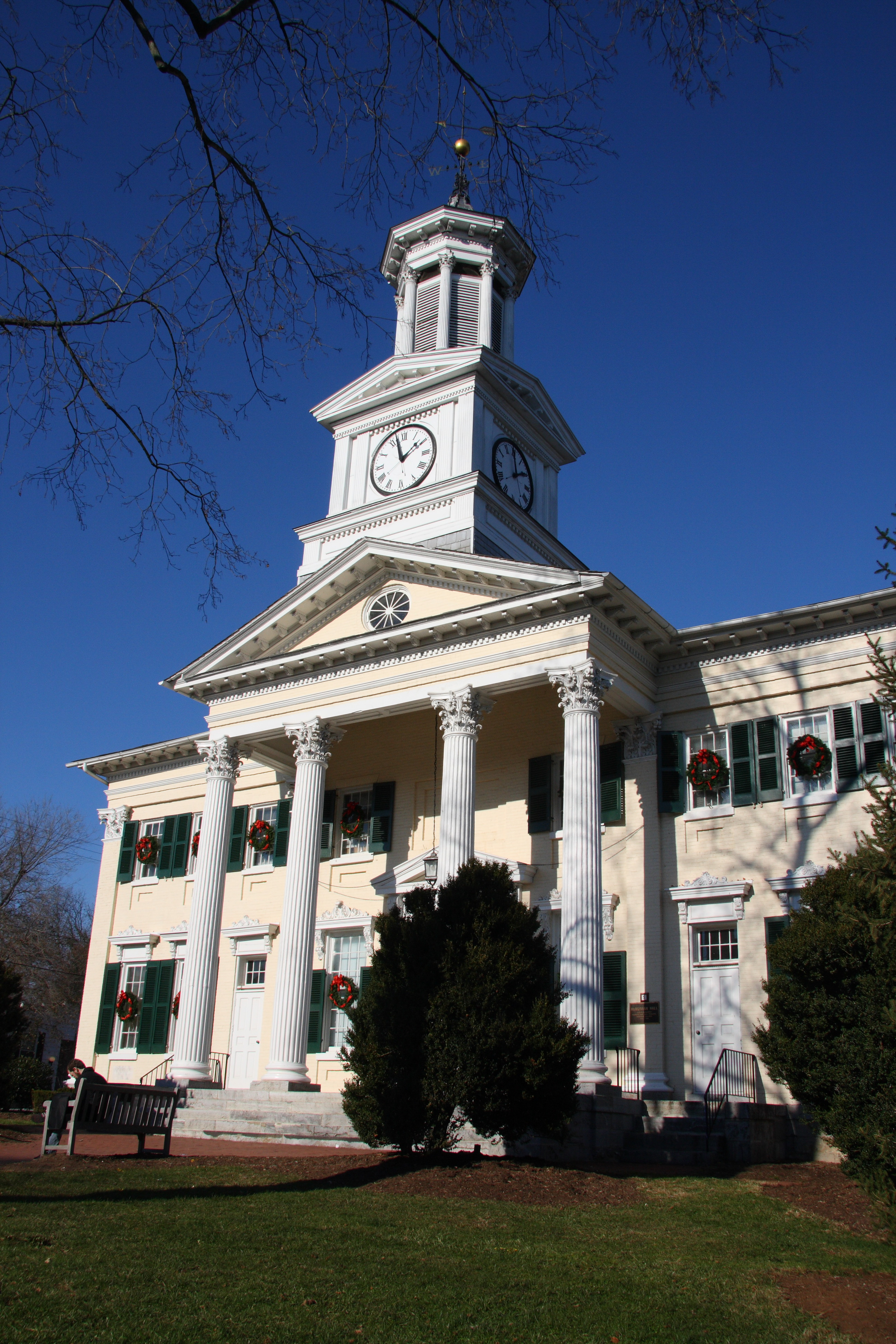 McMurran Hall, Shepherdstown, West Virginia, USA